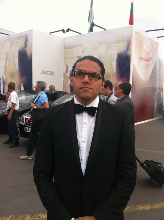 Hisham Abdel Khalek at Cannes Film Festival